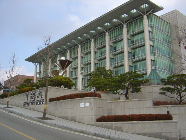 View of the 600th Anniversary Building on the Sungkyunkwan University campus in Seoul. Taken by Visviva.